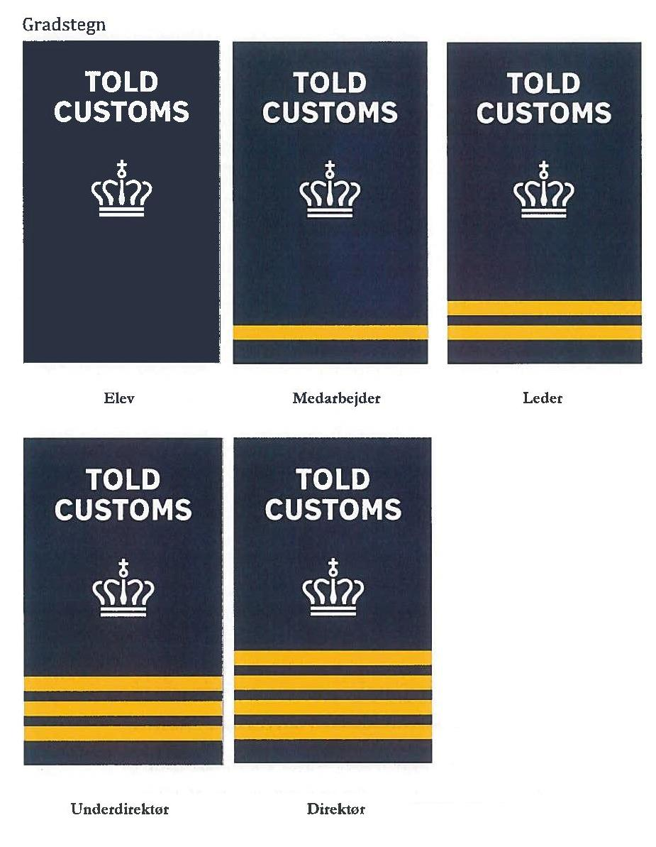 Rank insignia of the Danish custom service